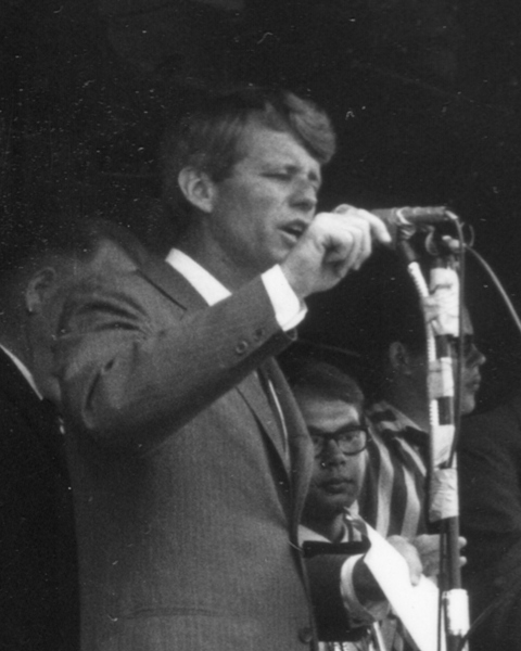 Photo by R. W. Rynerson, May 1968. Robert F. Kennedy speaks from the platform of a railway business car on his whistle-stop tour through Oregon's Willamette Valley.